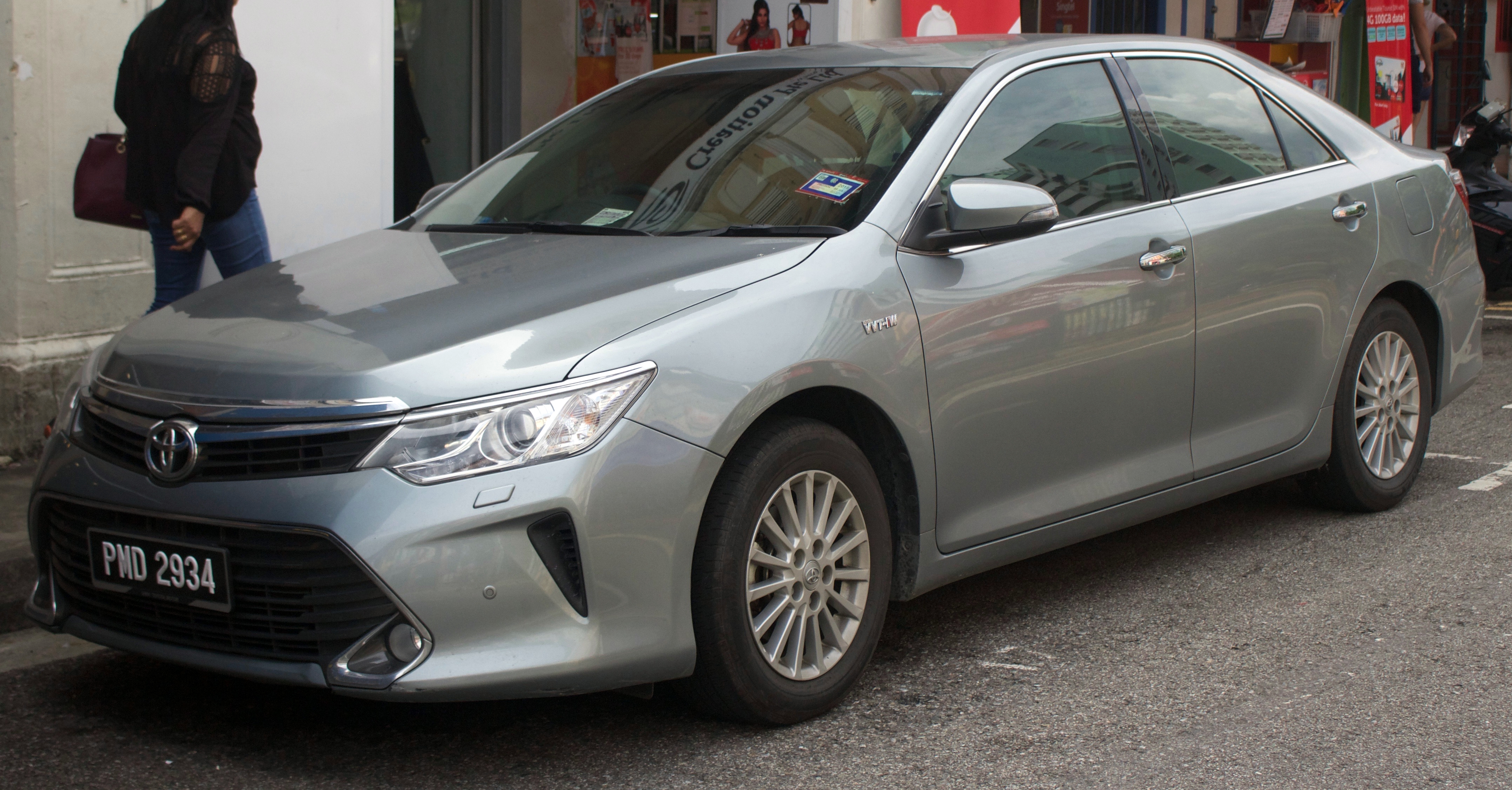 2016 Toyota Camry (XV50) 2.0G D-4S sedan. Photographed in Singapore.